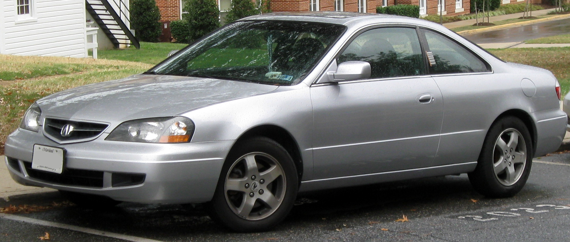 2001-2003 Acura CL photographed in College Park, Maryland, USA.